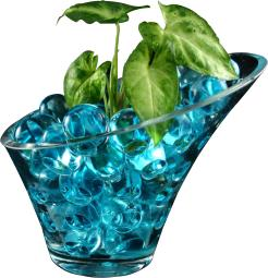 Example of hydrated water gel, or water beads, in a small centerpiece